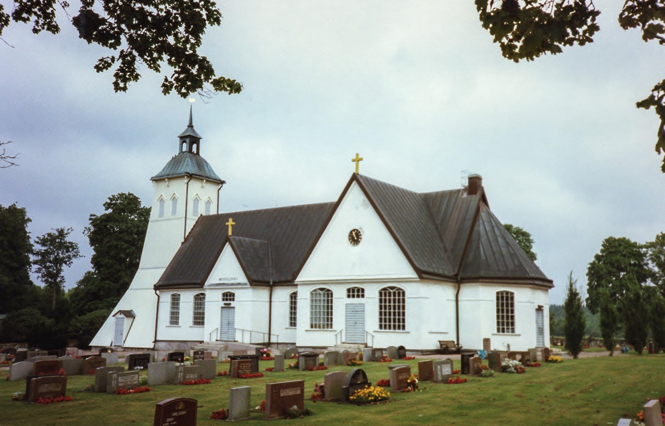 Tävelsås Church.Exterior